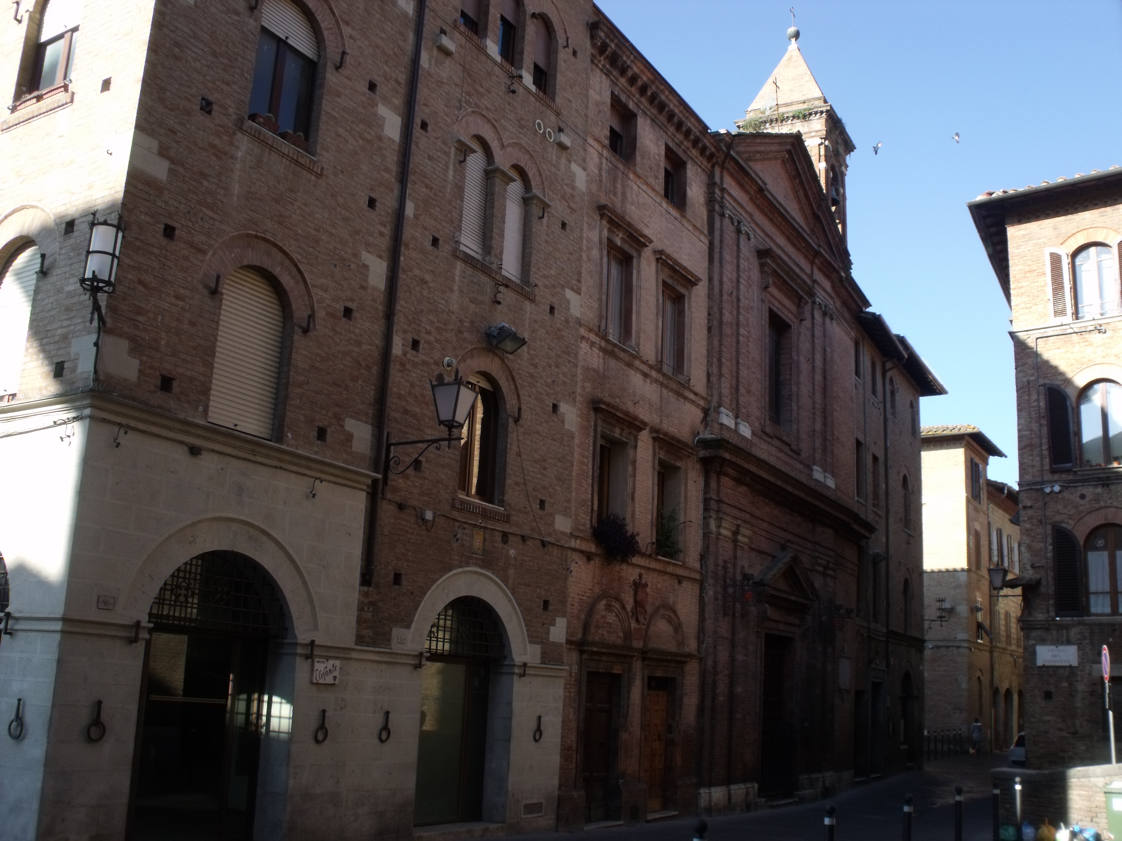 Church of San Giacomo in Siena, Contrada della Torre, Tuscany, Italy